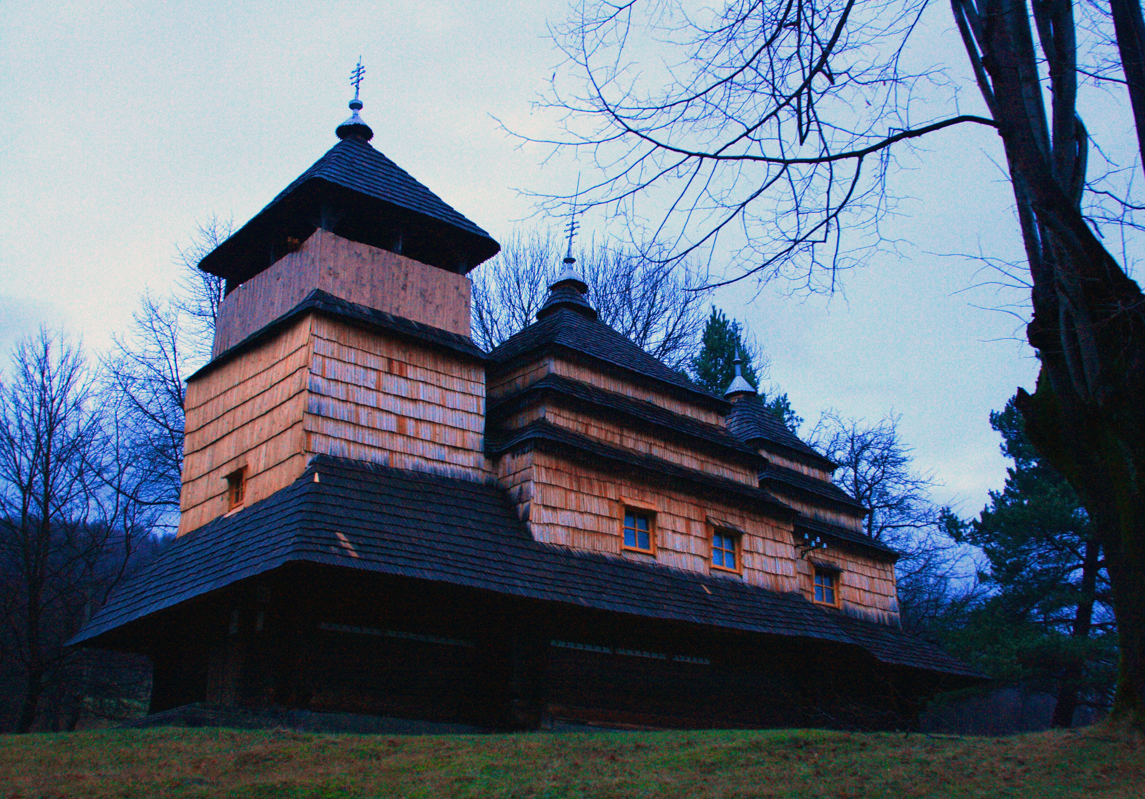 Wooden church from the Zakarpattia region, Ukraine, built in the 18th Century.